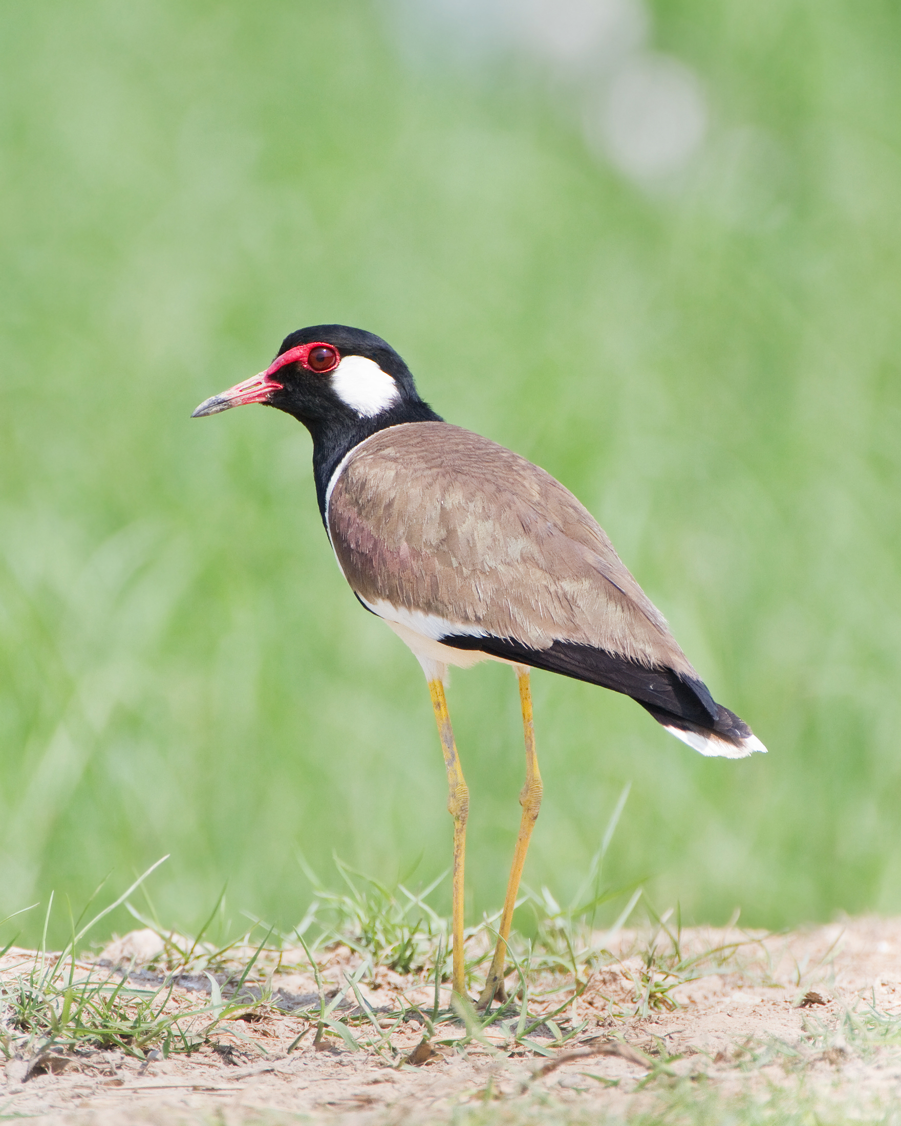 Red-wattled Lapwing (Vanellus indicus), Laem Phak Bia, Ban Laem, Phetchaburi, Thailand